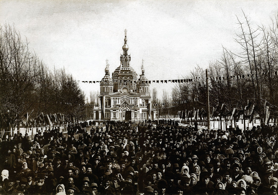 Crowds in front of the Ascension Cathedral during the Romanov Tercentenary